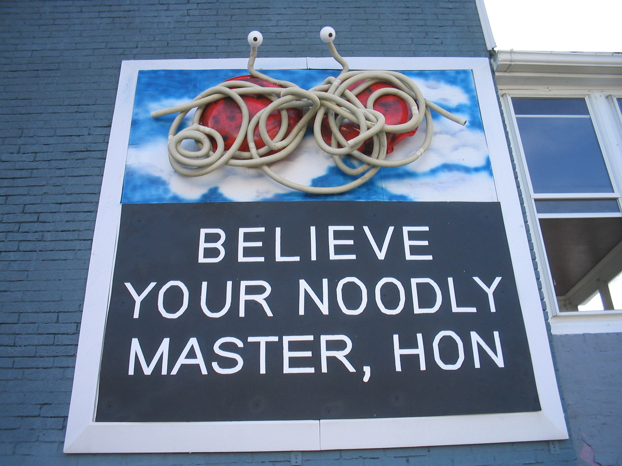 Someone constructed a beautiful tribute to the Flying Spaghetti Monster in Baltimore. I discovered this walking down to 36th Street in Hampden for some Christmas shopping.